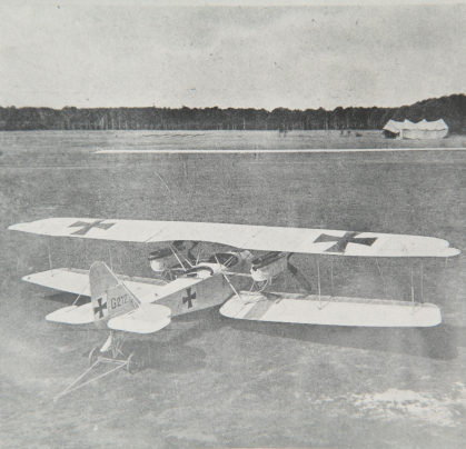 AEG G.III G.212/15